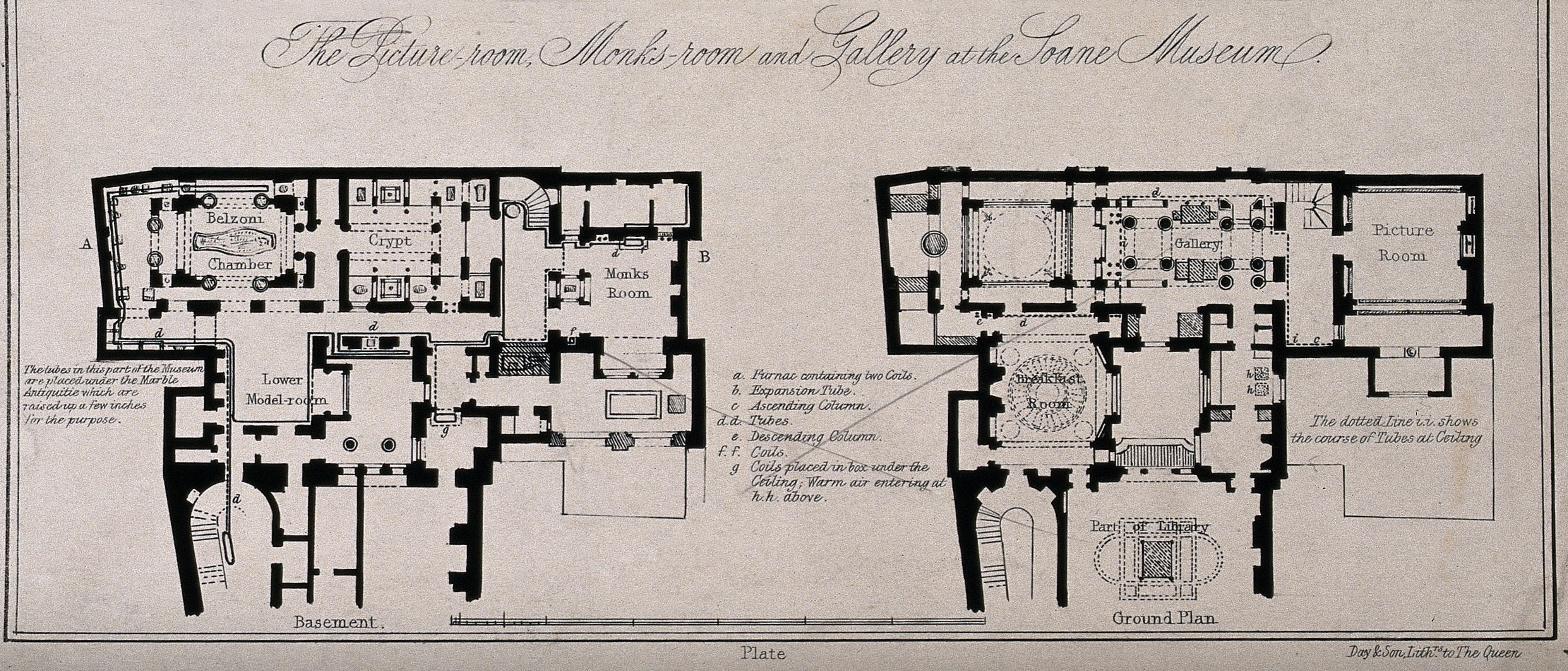 Sir John Soane's House and Museum: plans of the basement and ground floors, showing the heating arrangements. Lithograph, n.d., by Day & son. Iconographic Collections Keywords: John Soane; Sir John Soane's House (Lincoln's Inn Fields, London)